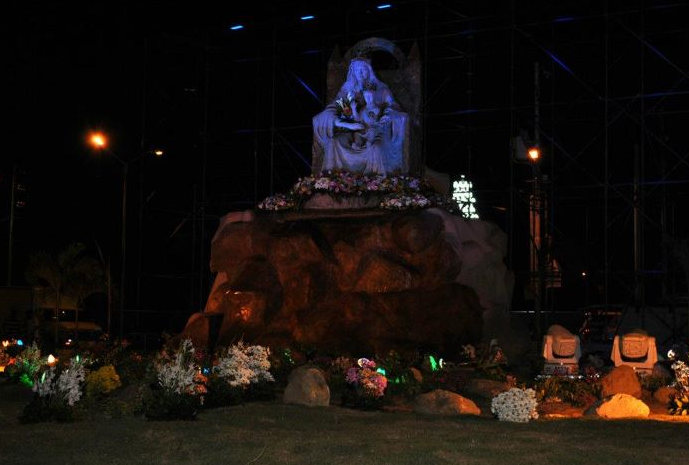 notarial